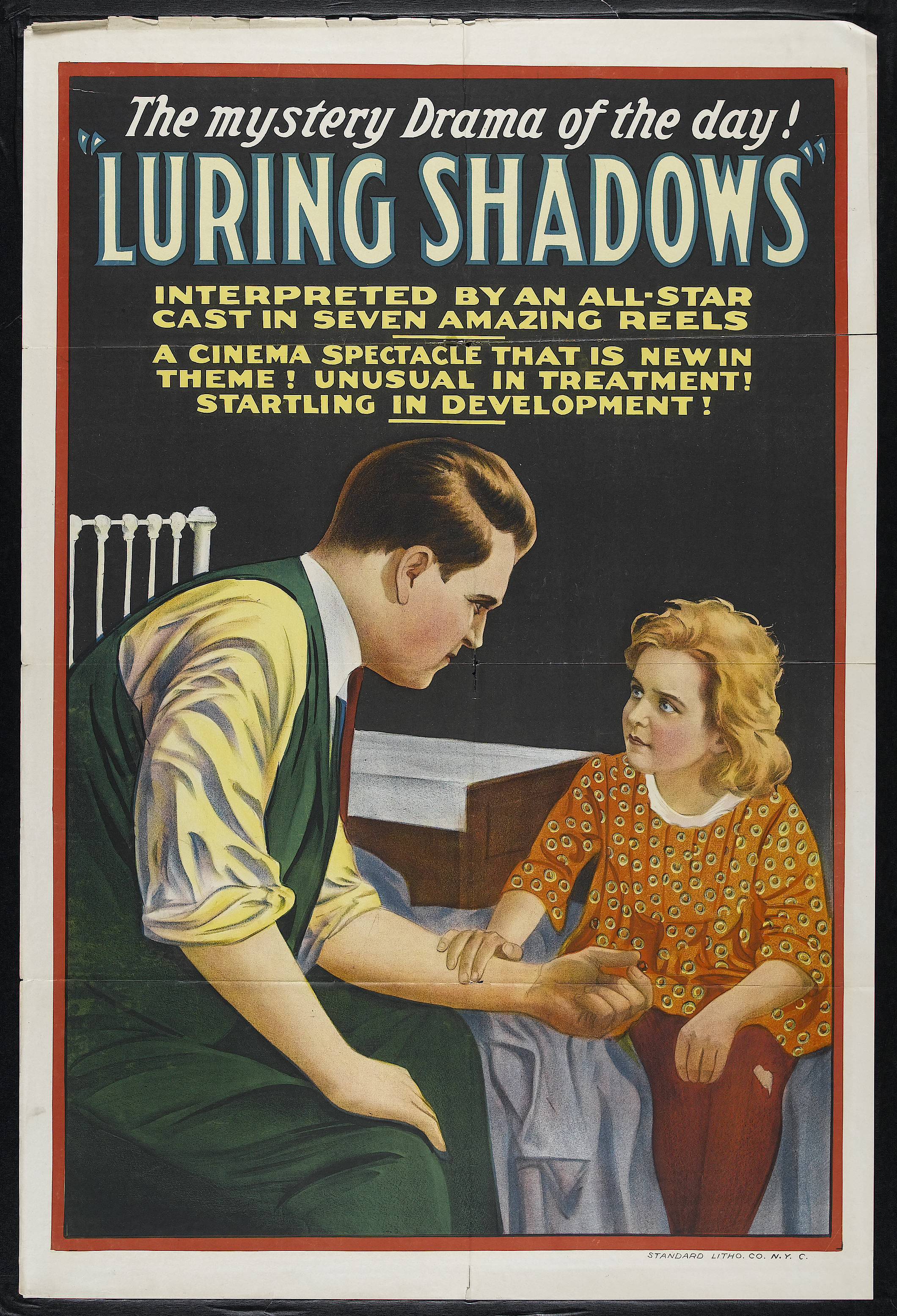 Poster for the American mystery film Luring Shadows (1920).